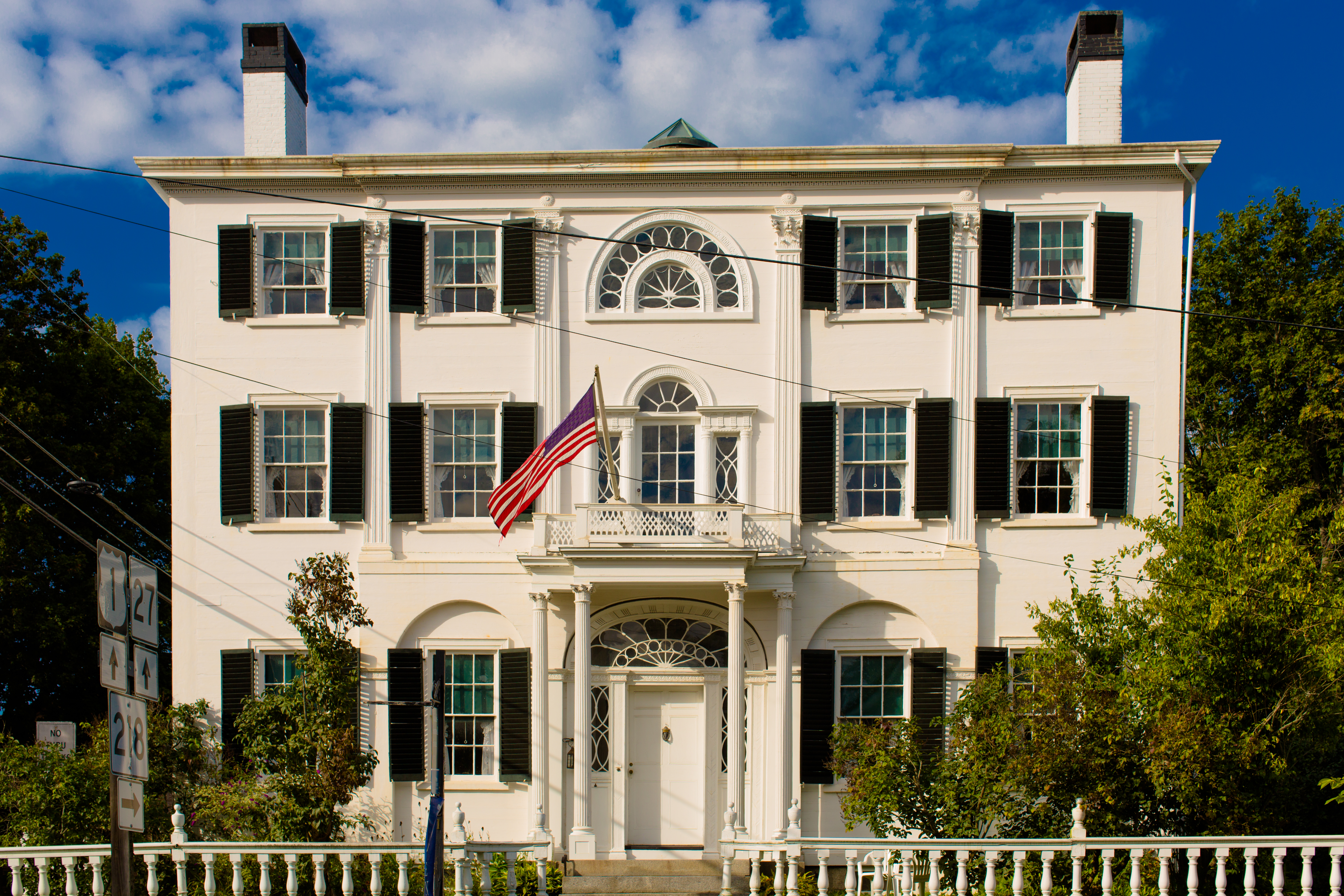 Nickels Sortwell House, Wiscasset, Maine, USA 2012